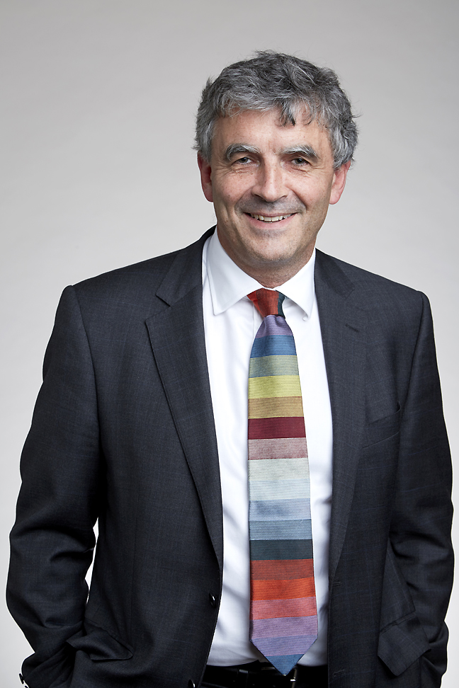 Andrew William Woods FRS is BP Professor at the University of Cambridge and a Professorial Fellow of St John's College, Cambridge. Attribution: The Royal Society